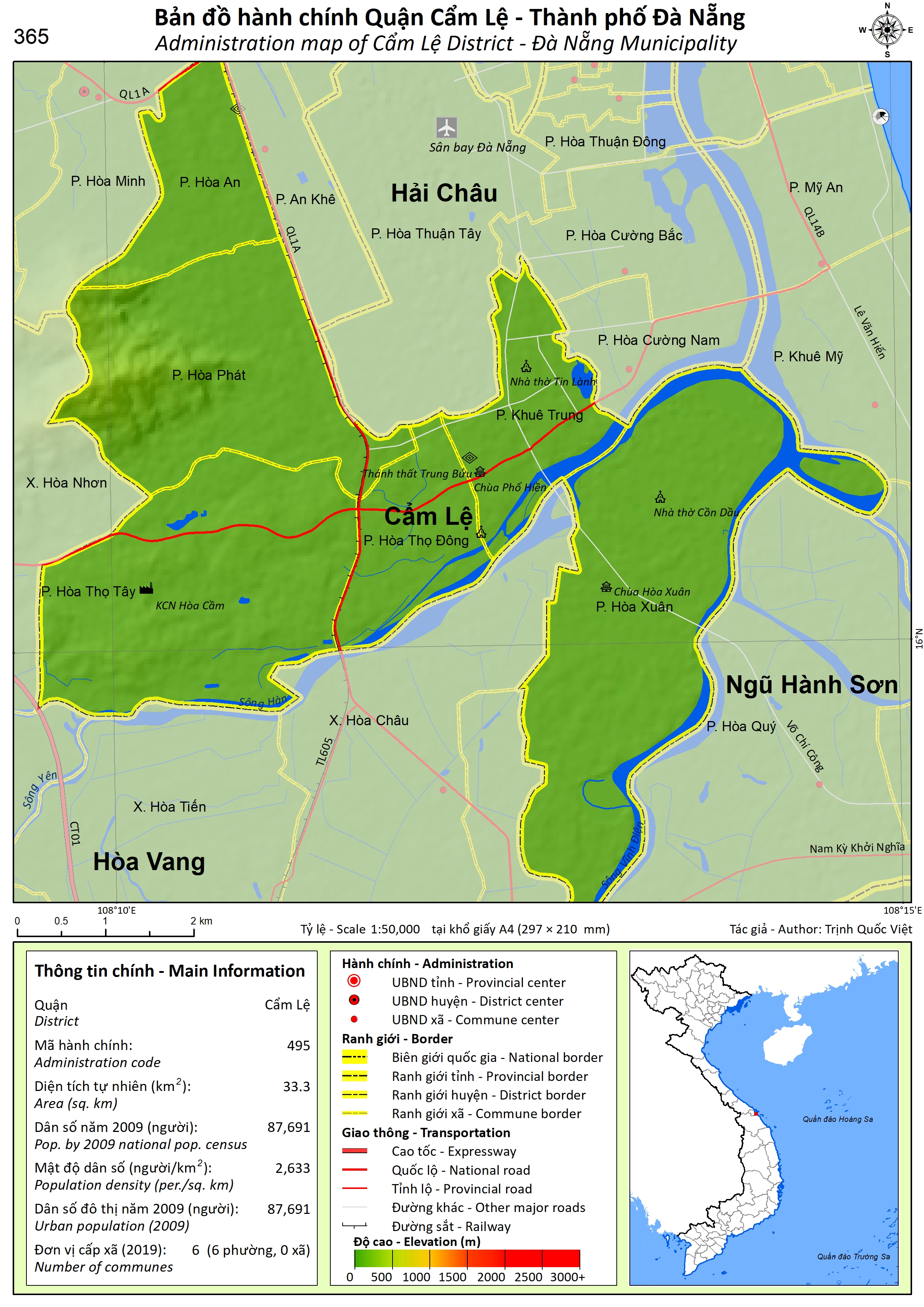 Administration map of Cam Le District, Danang City